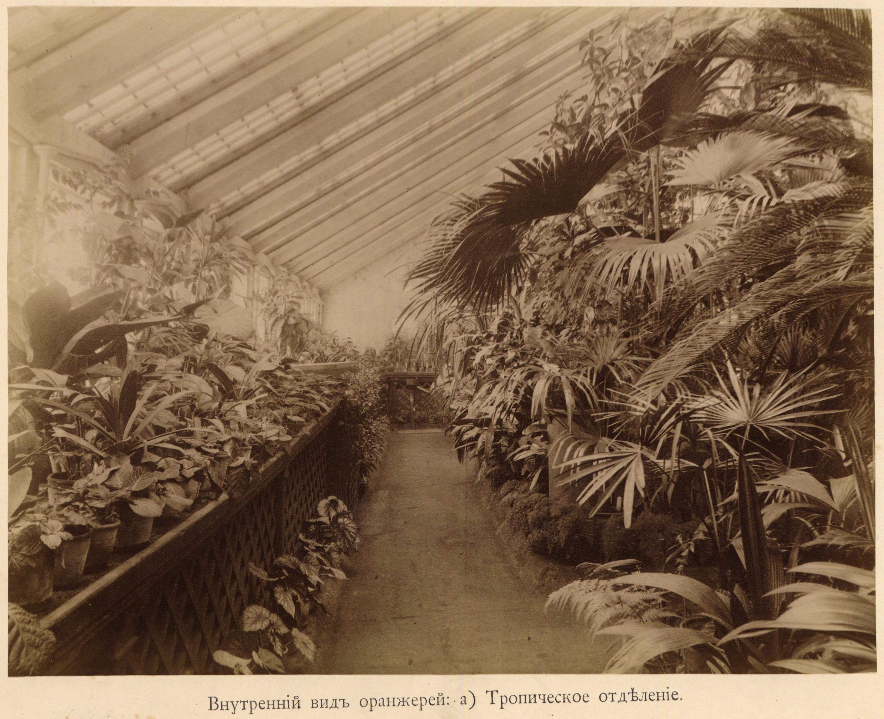 Tropical section of the greenhouse